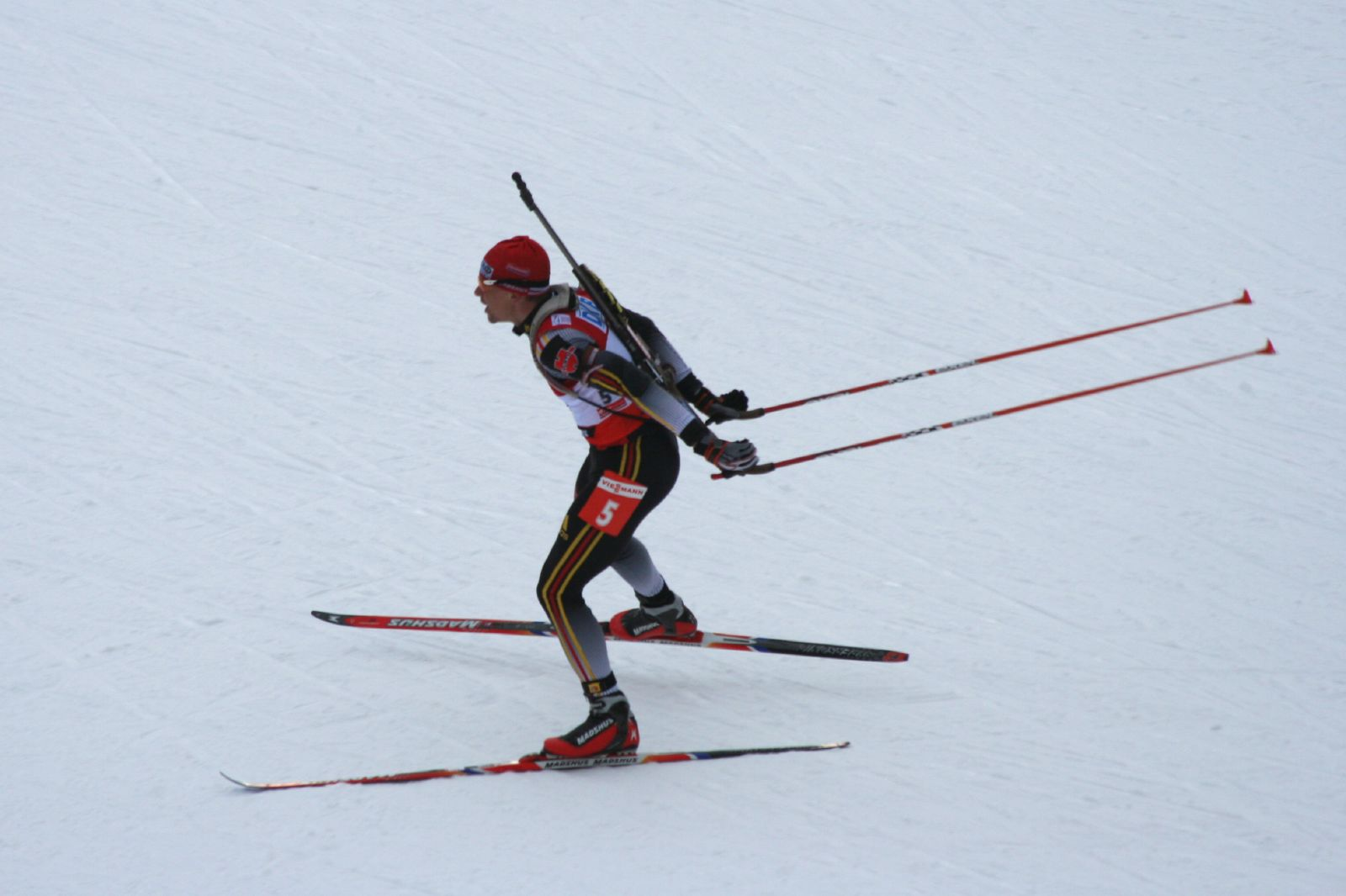 Michael Greis, Germany at the Biathlon Mass start race at the World Championships 2007 in Antholz